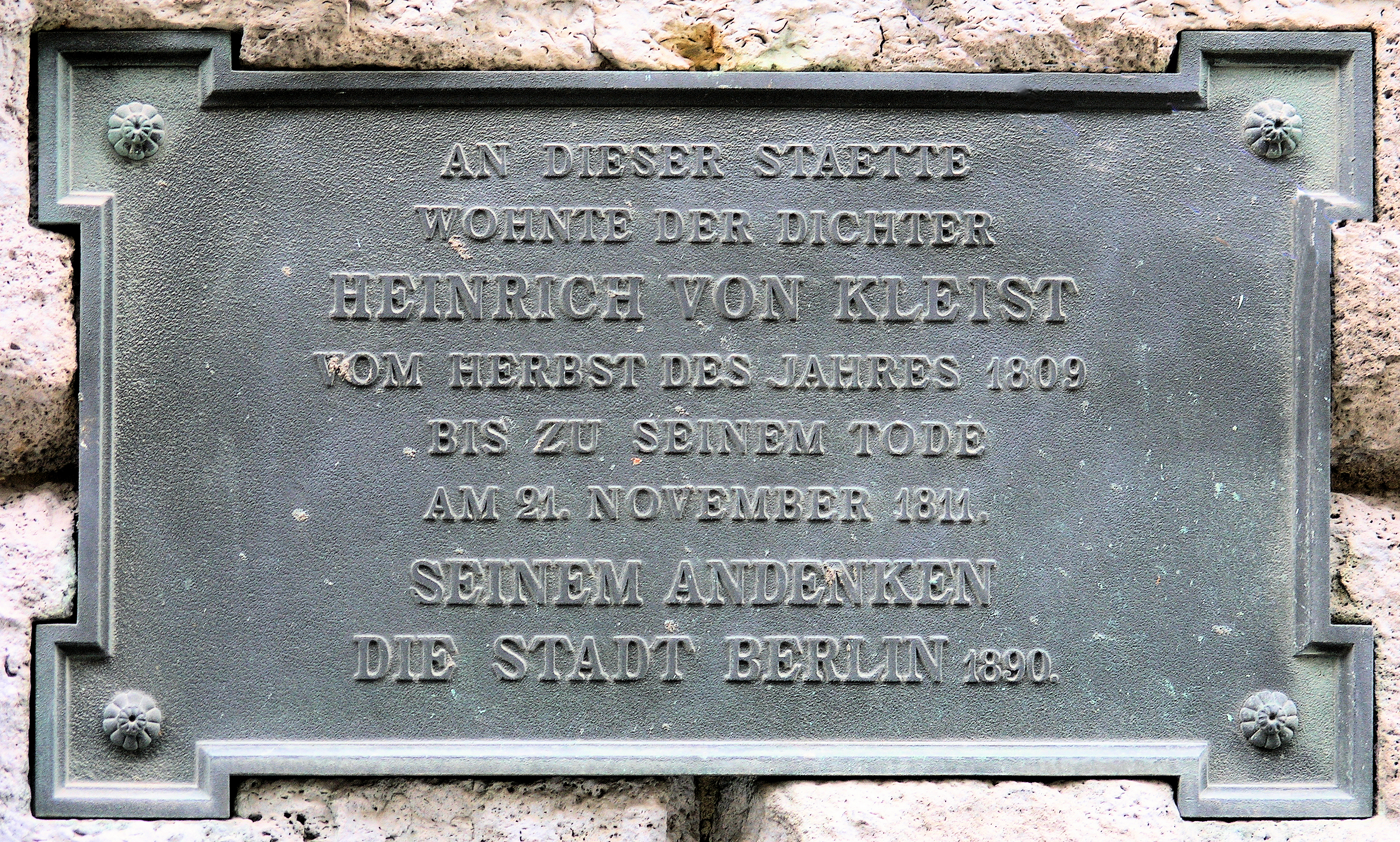 Memorial plaque, Bernd Heinrich Wilhelm von Kleist, Mauerstraße 53, Berlin-Mitte, Germany Koordinate:52°30′45.4″N 13°23′7.8″E / 52.512611°N 13.3855°E